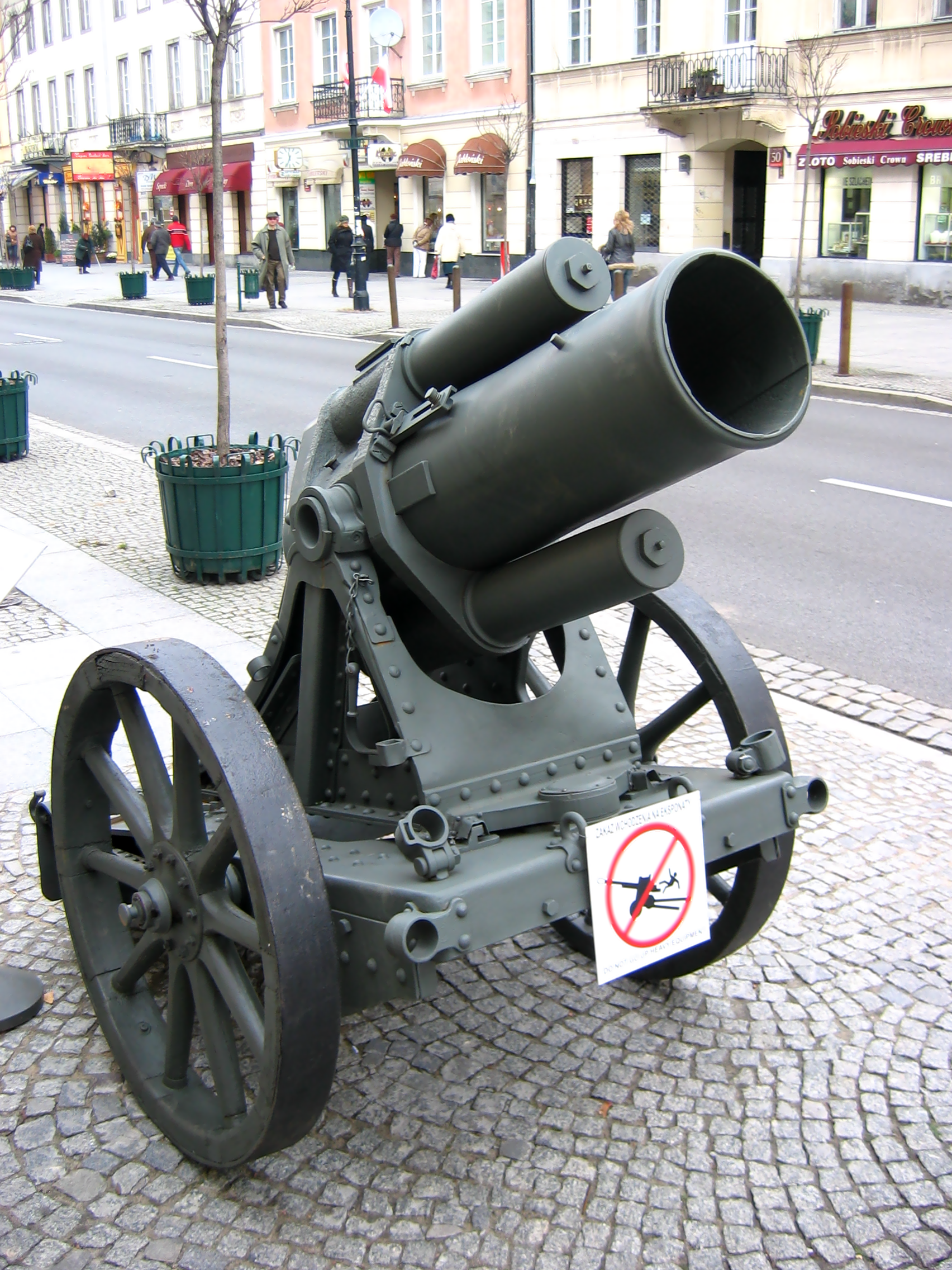 25 cm Minenwerfer of Polish Army 1918-1925